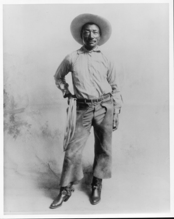 Bill Picket. c.1902.